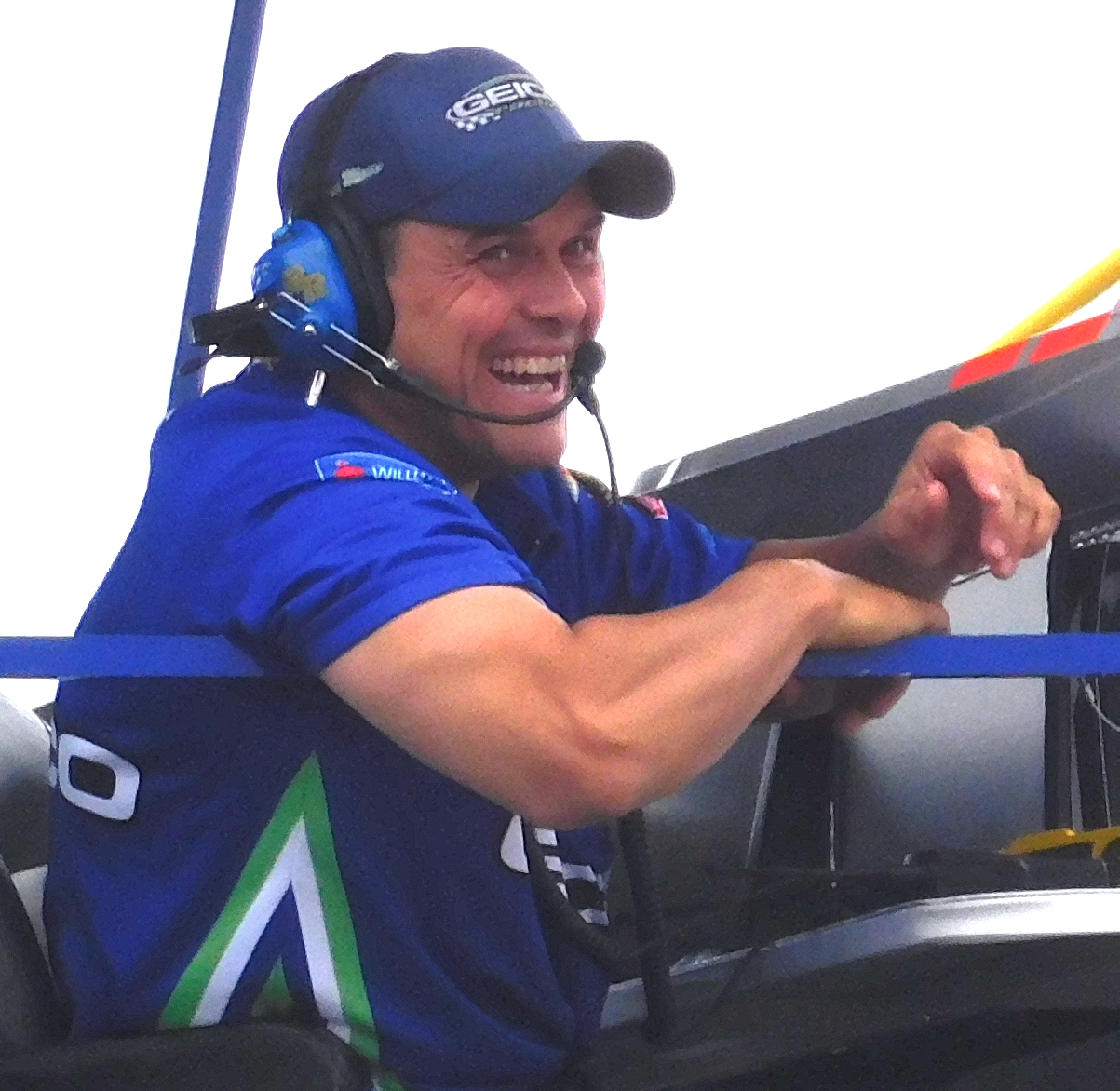 Bootie Barker at Pocono Raceway in 2016